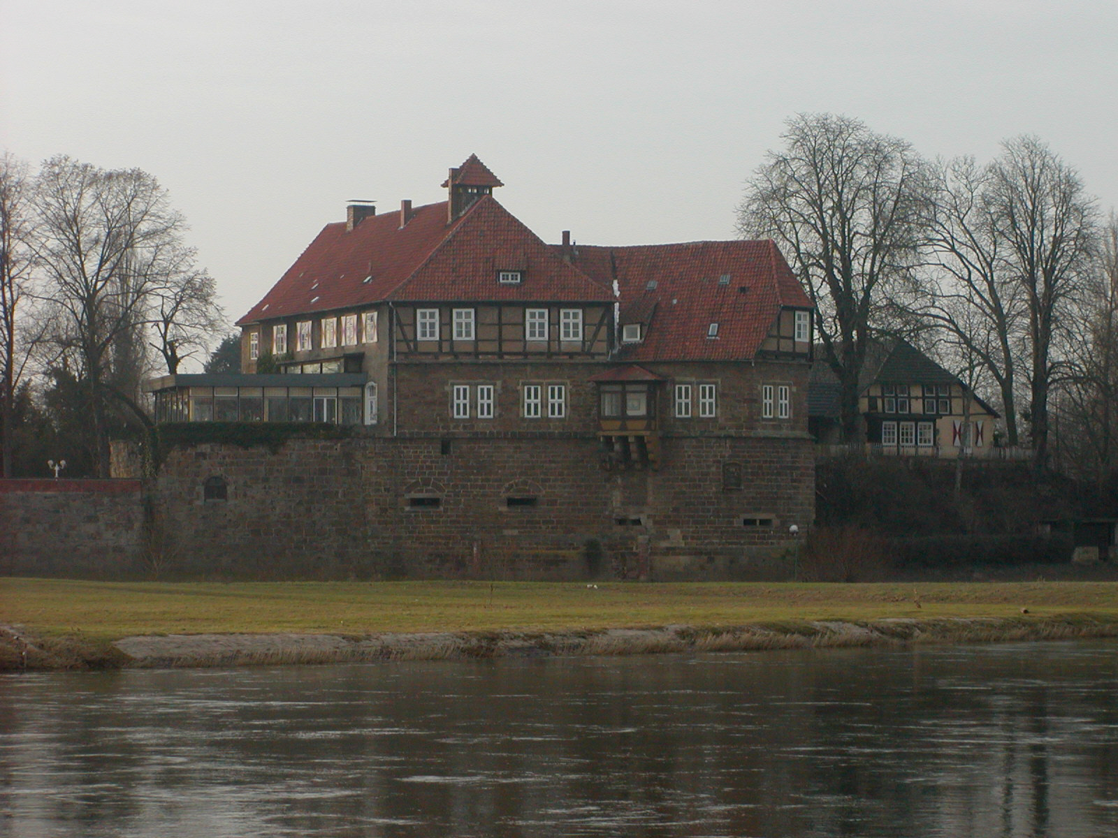 Schloss Petershagen, eastern aspect